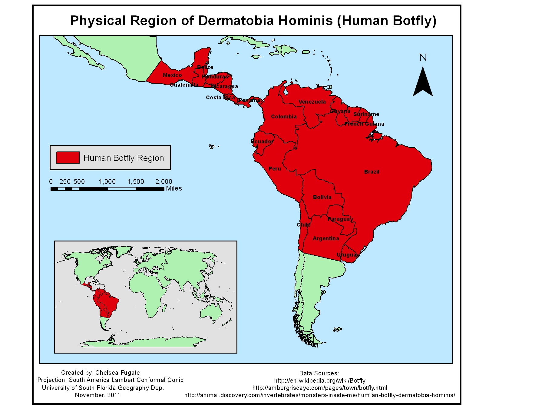 This map depicts the physical region of the human bot fly.